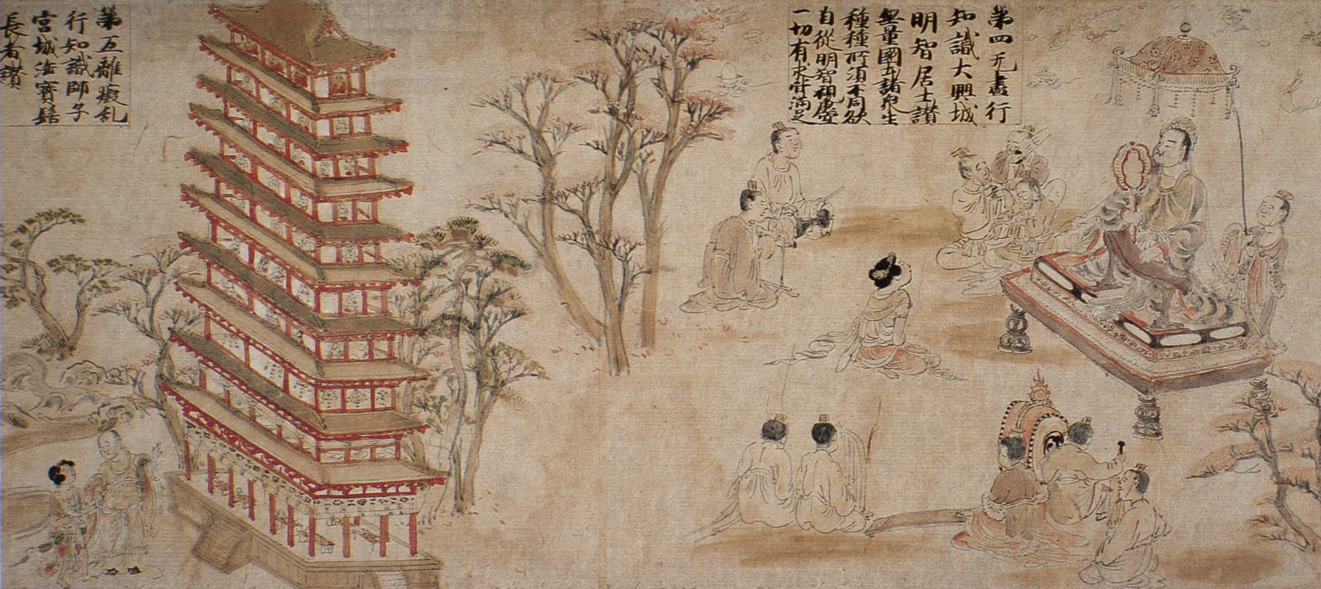 late 12thC, Todaiji, Nara, Japan (National Treasure)